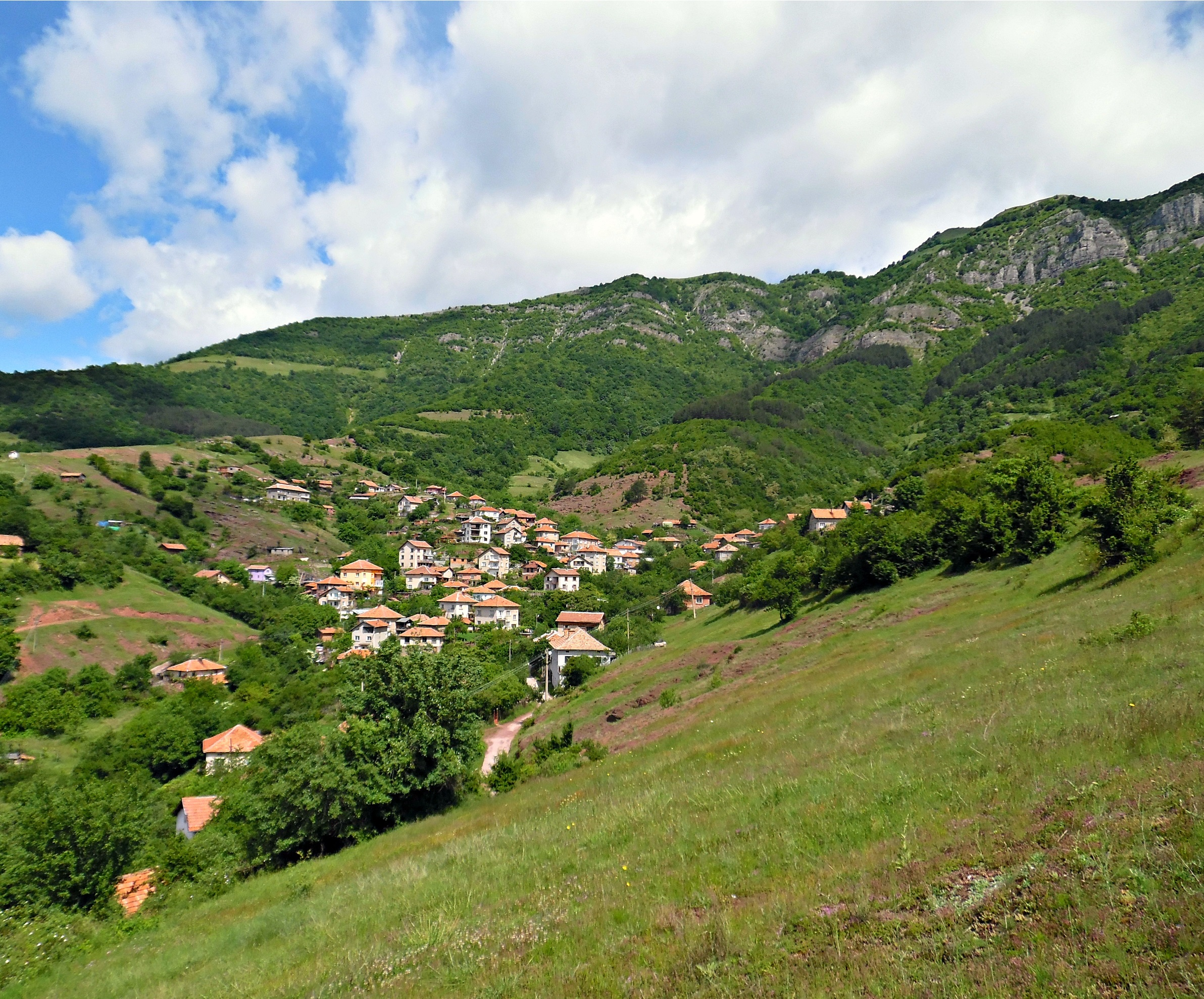 Village Ochindol, Vrachanski Balkan Reserve, Bulgaria